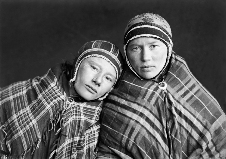 Portrait of two Sami girls from Kautokeino, Anna Aslaksdatter Gaup and Anna Johnsdatter (Jonsdatter) Sernby (Somby).